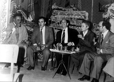 Former French President of the Council of Ministers, Pierre Mendès-France at Kairouan, Tunisia with his wife and Gouvernor Tahar Boussema.